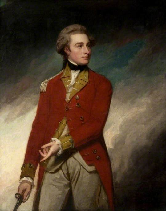 Portrait of Lieutenant Colonel Sir Charles Stuart (1753–1801)